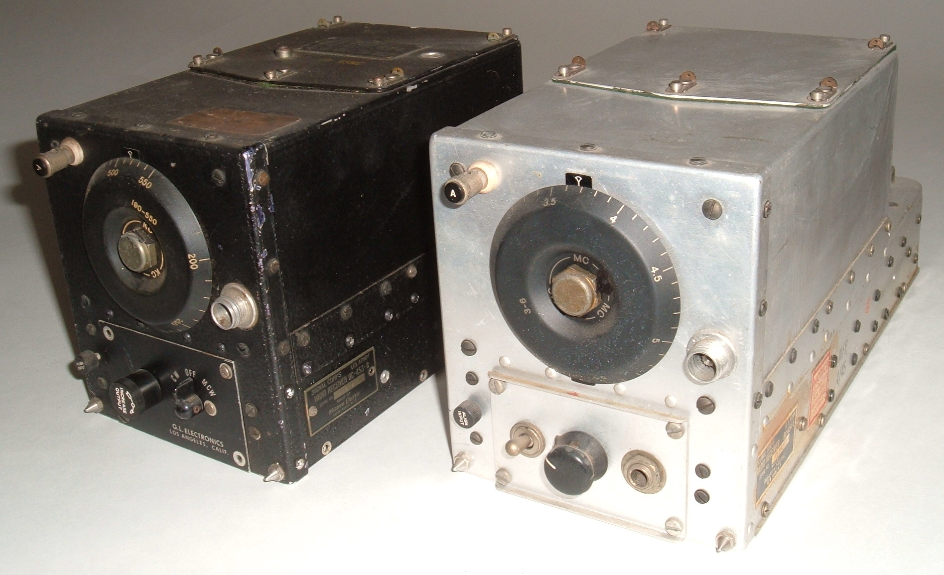 Two radio receivers from the U.S. military's World War II ARC-5 series. Unit on the left is a BC-453-B, covering 190-550 kHz; the one on the right is a BC-454-E, covering 3-6 MHz. Each unit is 10-3/4" long by 4-3/4" wide by 5-1/2" high. Both have been modified for Amateur Radio use by replacing the front connector with a small control panel. I took these pictures of artifacts in my possession on March 26, 2006. --agr 14:23, 27 March 2006 (UTC)